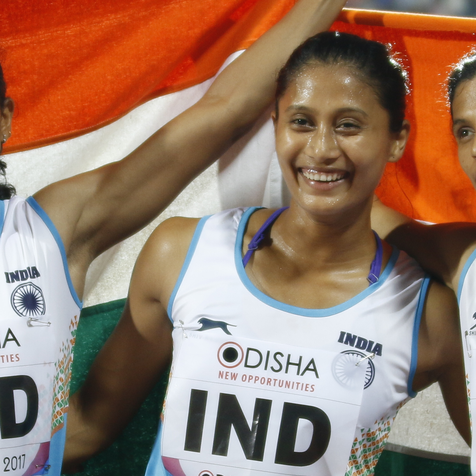 Dutee Chand, Srabani Nanda, Himashree Roy And Merlin Joseph(Bronze Medalist For India) from the 22nd Asian Games in Odisha. 2017 Asian Athletics Championships. 6 to 9 July 2017 at the Kalinga Stadium in Bhubaneswar